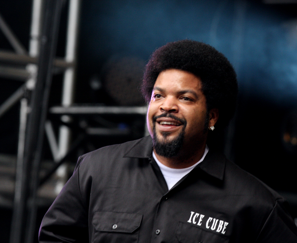 Ice Cube at Supafest 2012, Sydney, Australia